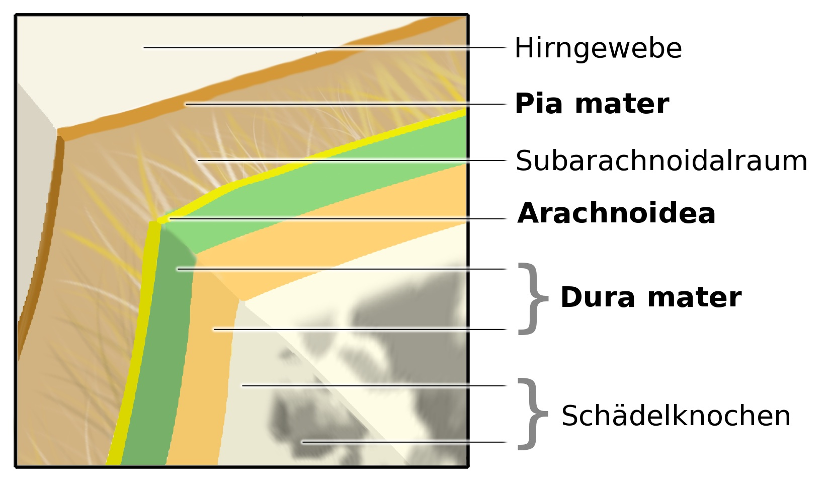 Illustration depicting the layers of the scalp and meninges.